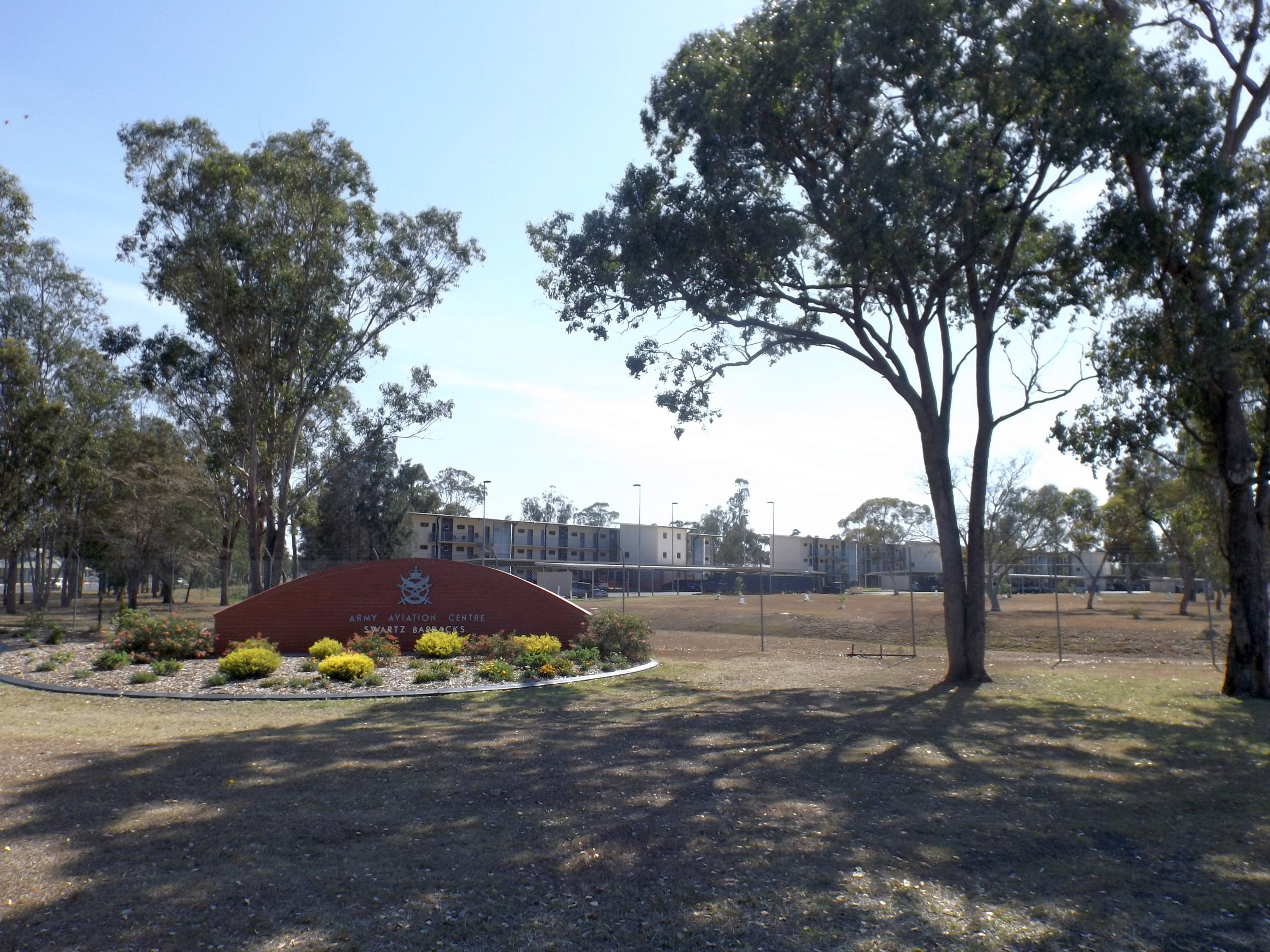 Photo of Swartz Barracks welcome sign and buildings at Army Aviation Centre Oakey in Oakey, Queensland, Australia.